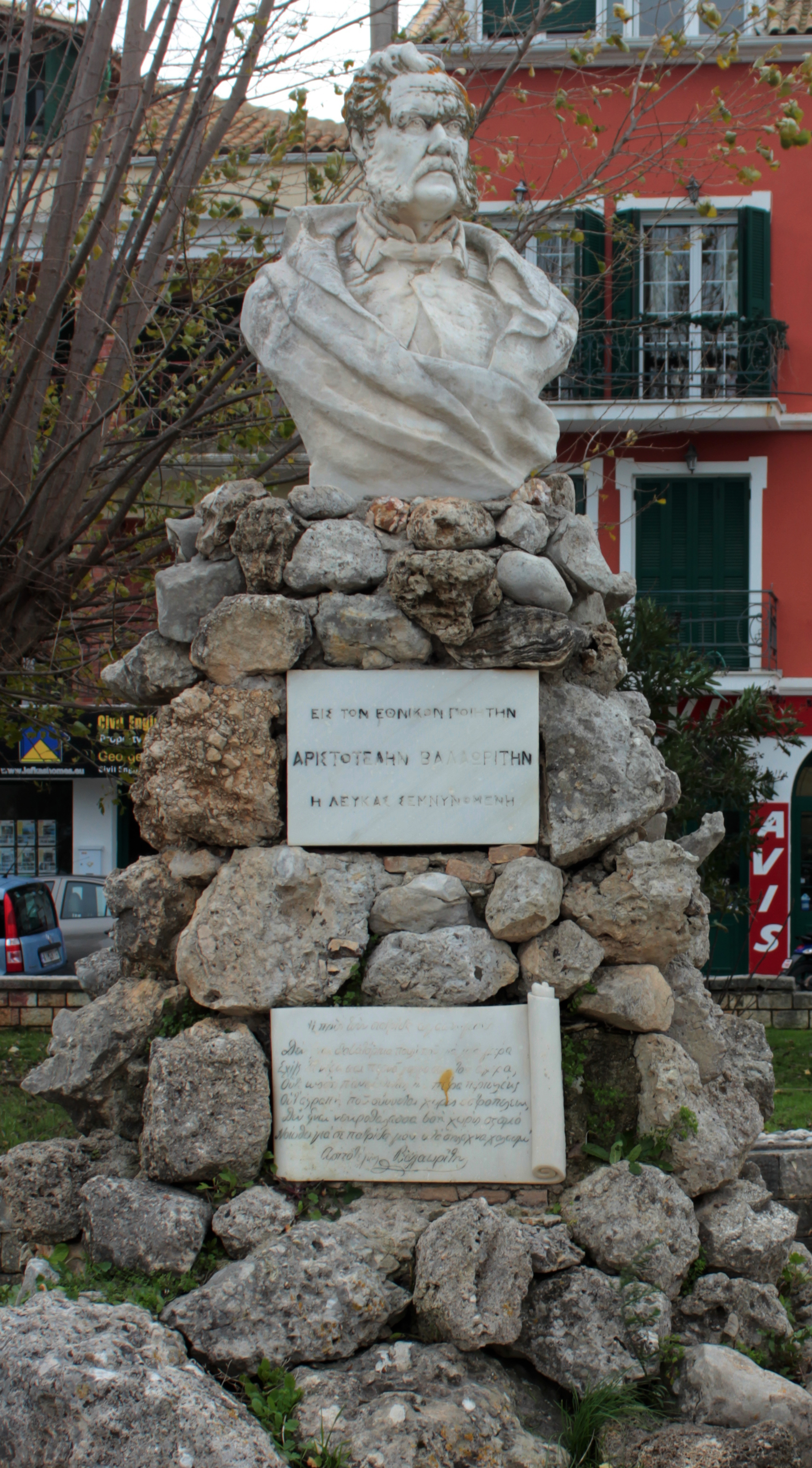 Greek poet Aristotelis Valaoritis monument in his birthplace - Lefkada Greece